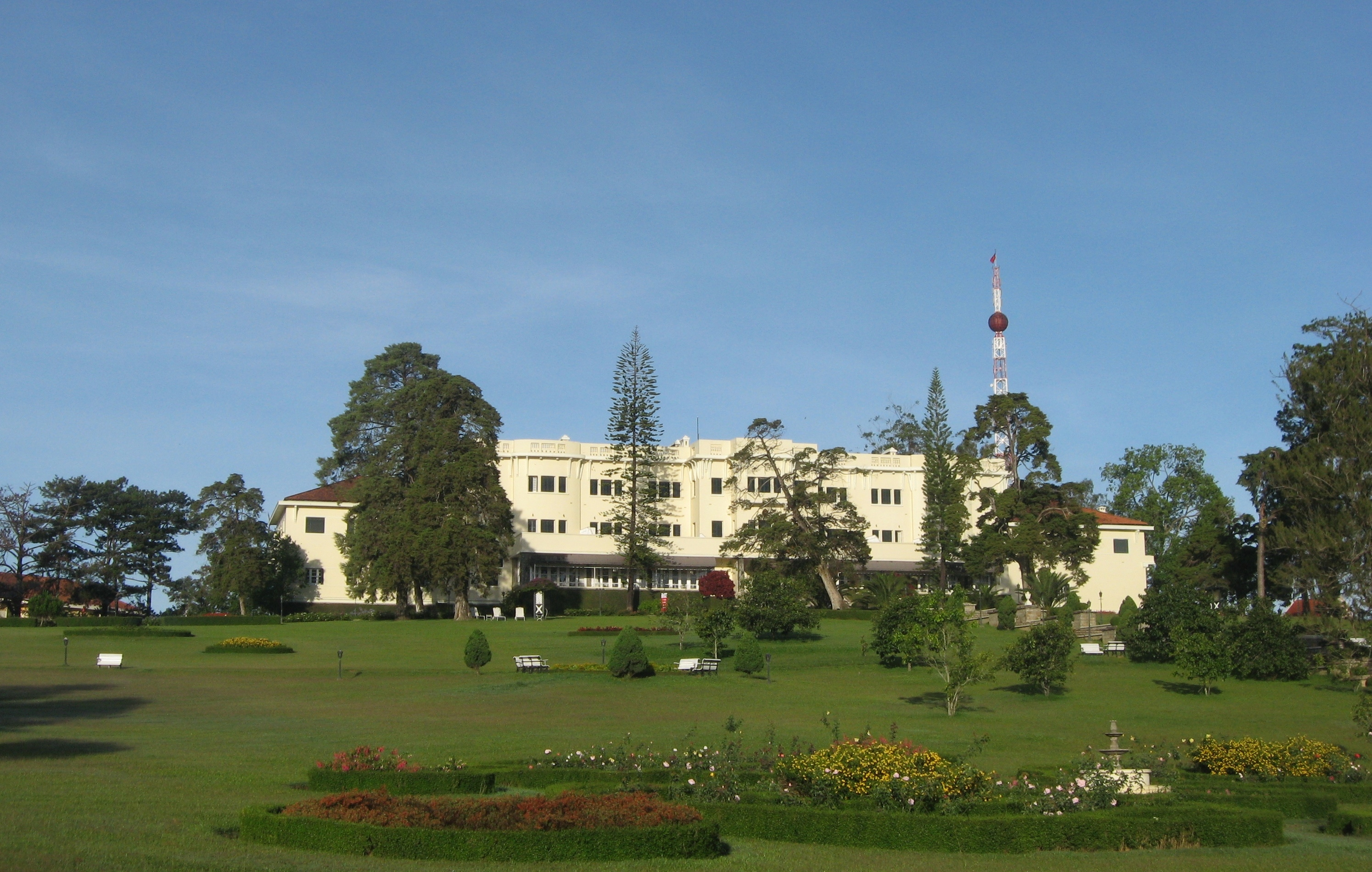 Dalat Palace Hotel